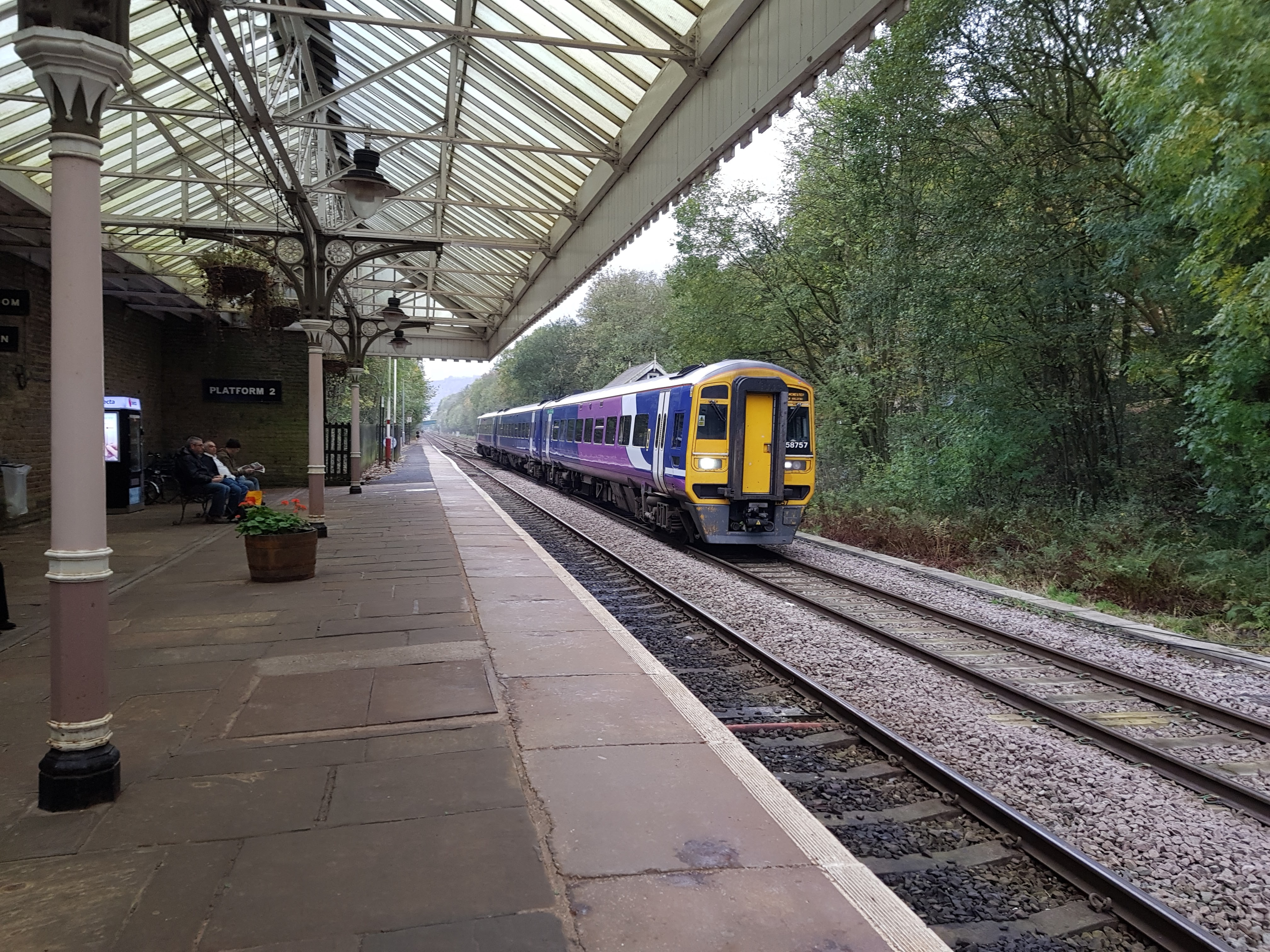 Hebden Bridge railway station, Hebden Bridge, West Yorkshire